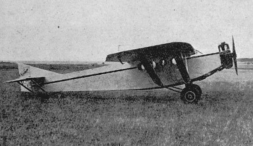 Farman F.190 photo from Annuaire de L'Aéronautique 1931